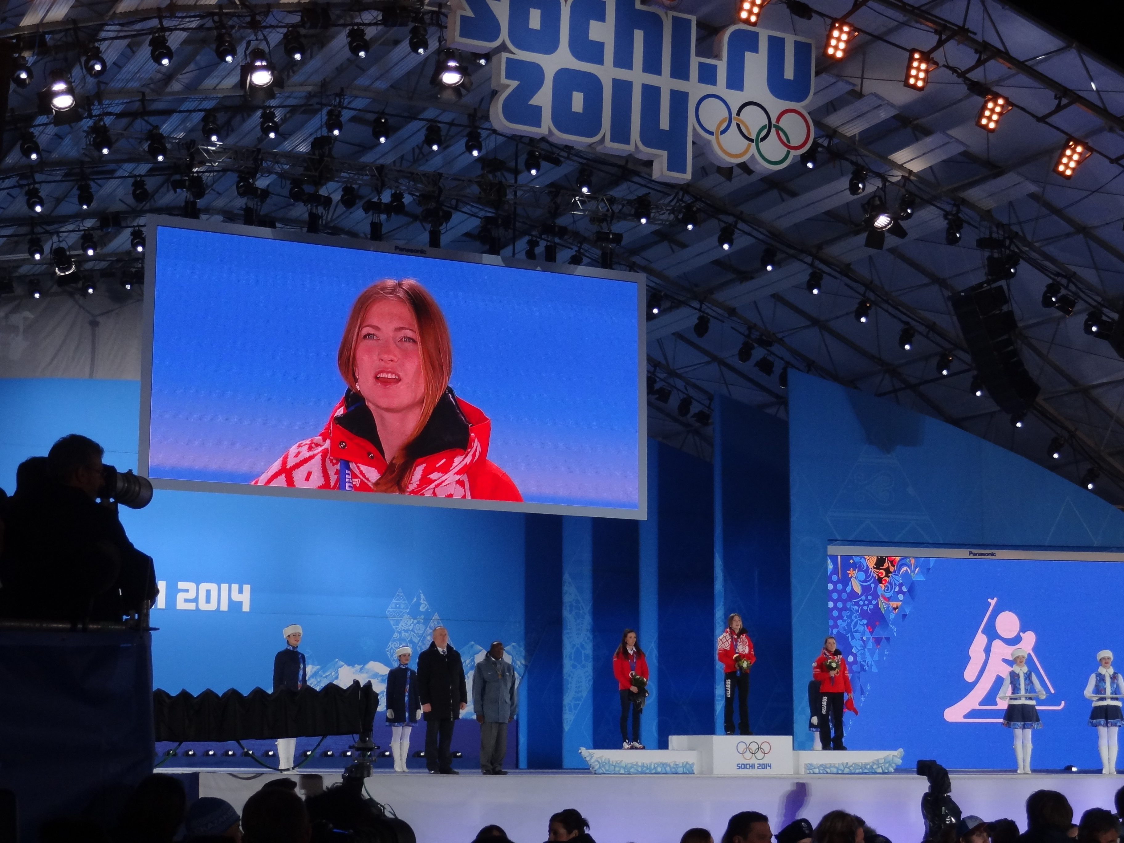 Women's 15km Individual - Biathlon - Sochi 2014. Gold: Darya Domracheva, Belarus. Silver: Selina Gasparin, Switzerland. Bronze: Nadezhda Skardino, Belarus.